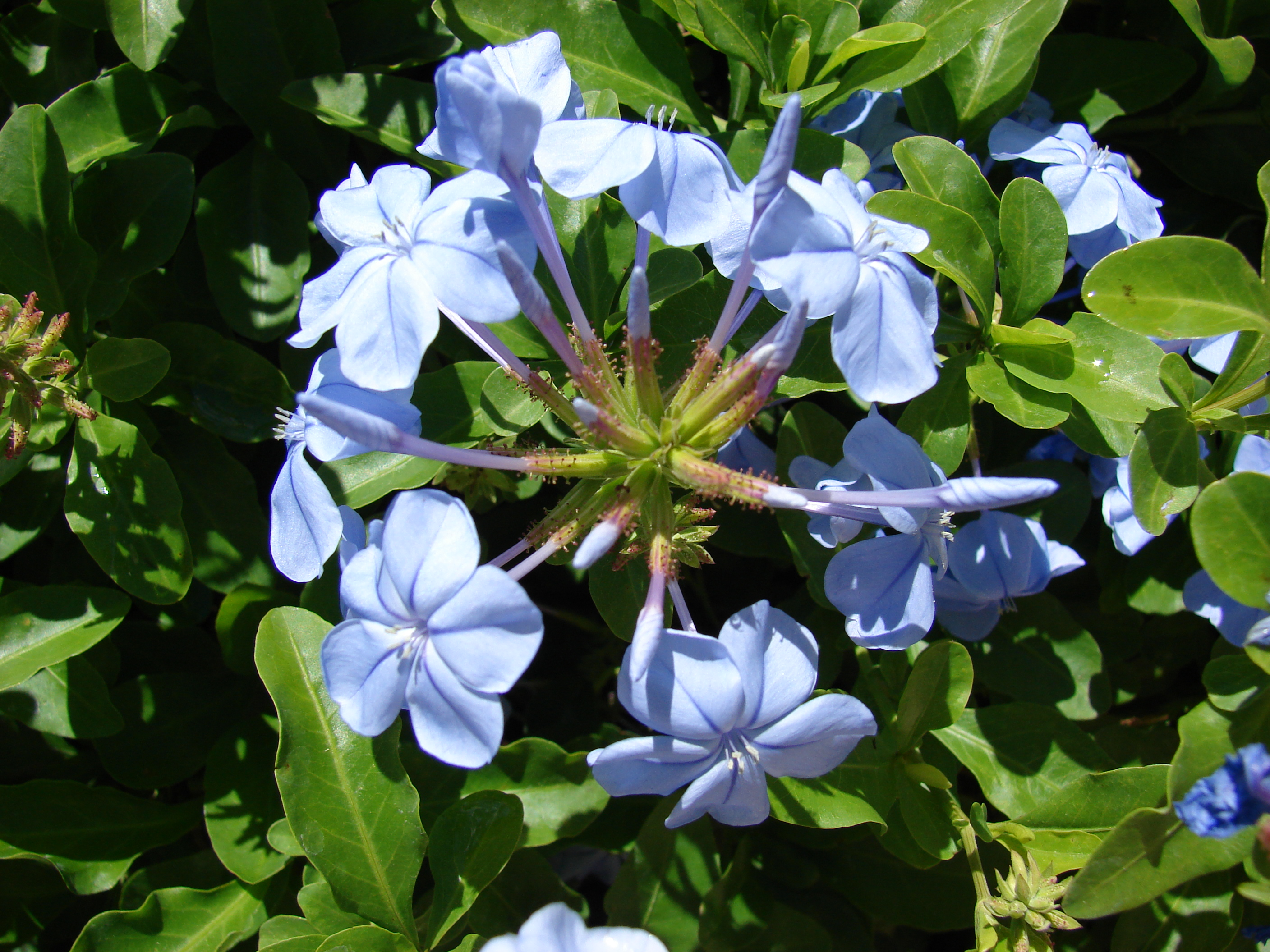 Plumbago auriculata (Cape plumbago, leadwort) Flowers at Hookele Rd Kahului, Maui, Hawaii. February 07, 2007 [ #070207-4265 - Image Use Policy